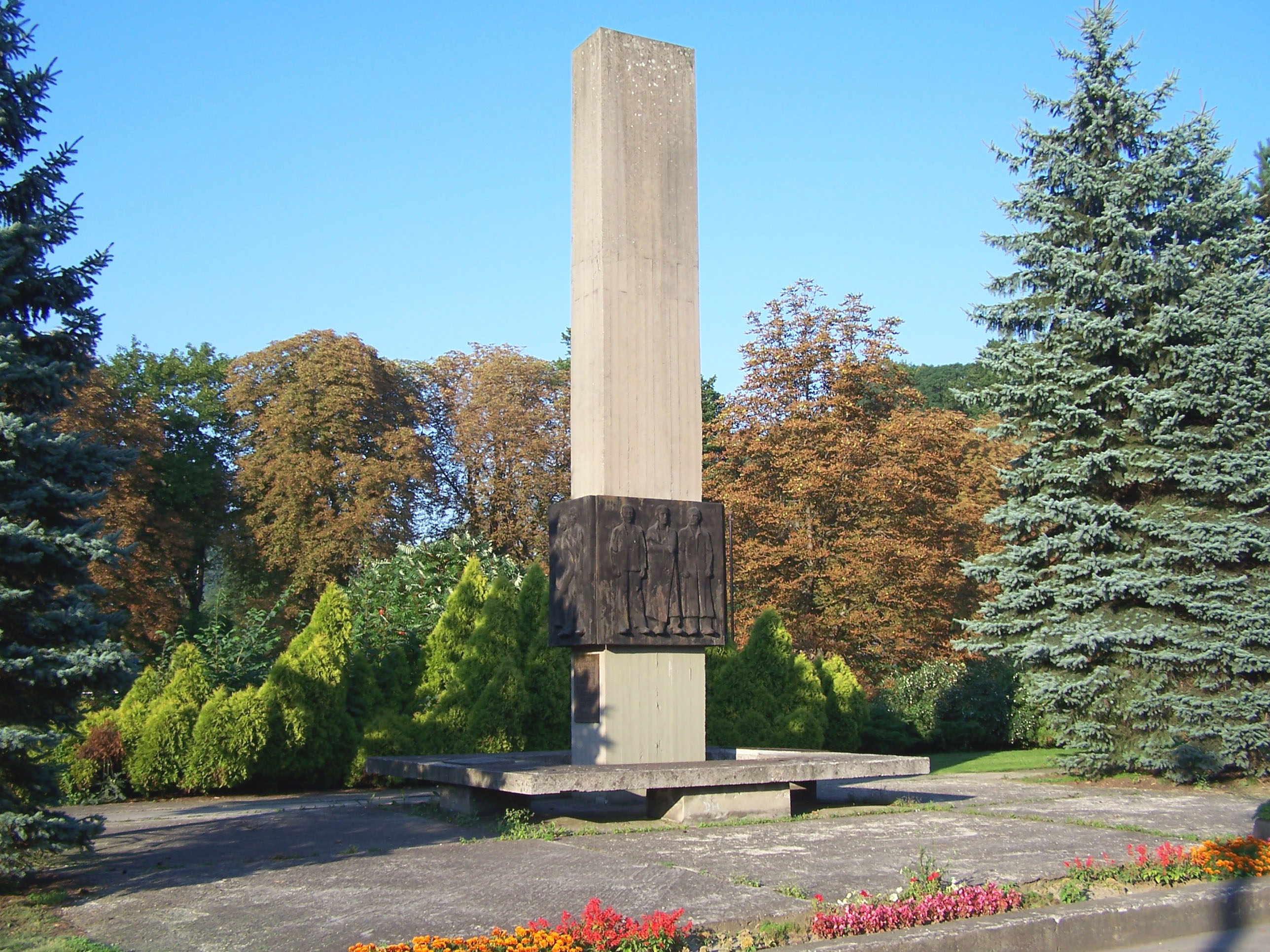 Memorial dedicated to World War II resistance fighters of Poland, Czechoslovakia and other countries. It was built at Kontešinec (Konteszyniec), Český Těšín (Czeski Cieszyn), in place, where during World War II a prisoners of war camp Stalag VIII was located. Sculpted by Štěpán Mikula.